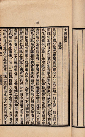 Dauphin William Osgood's five-volume translation of a standard work on anatomy, known in Chinese as 全体阐微.